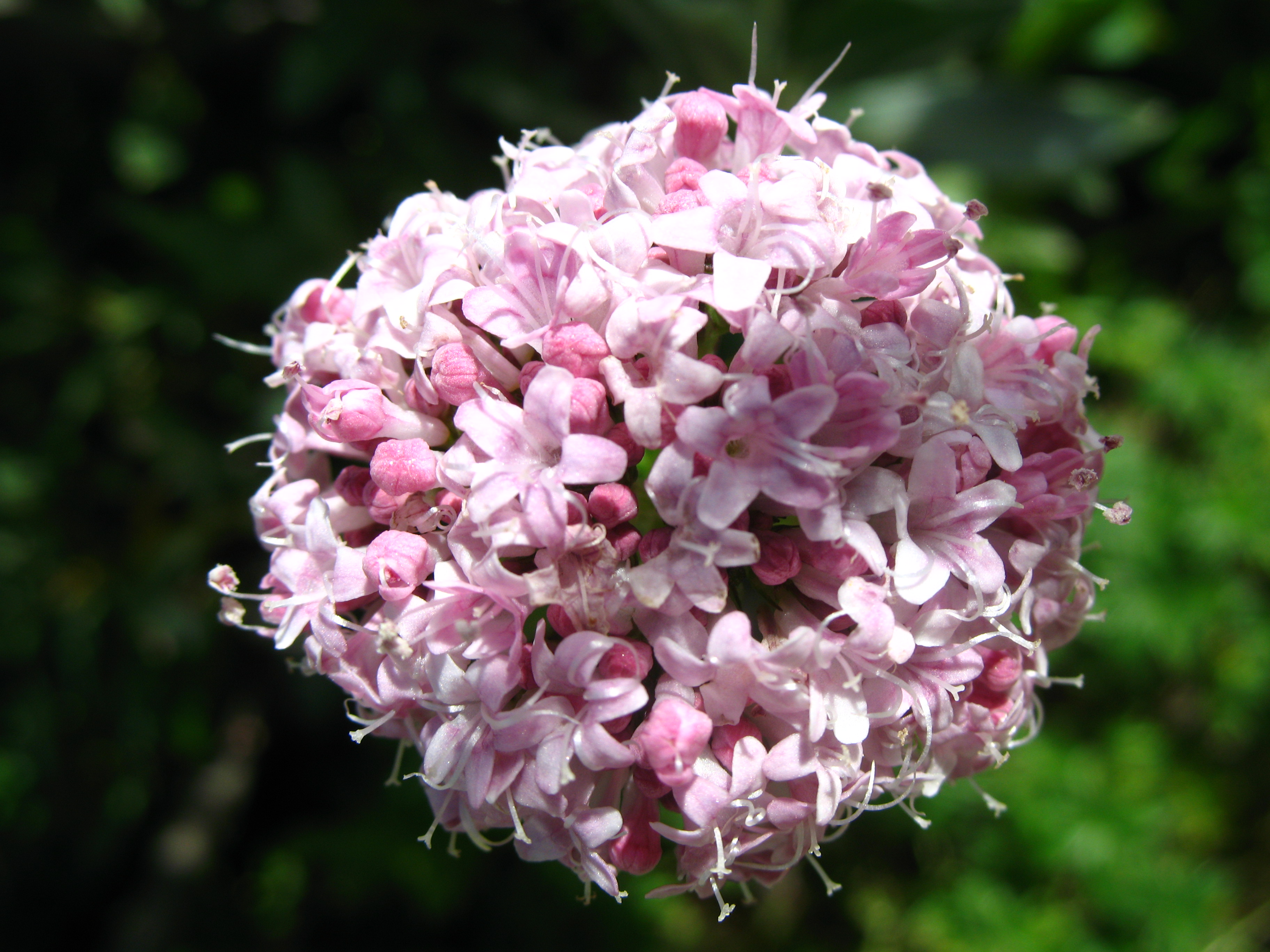 Valeriana tuberosa, Schynige Platte, Switzerland